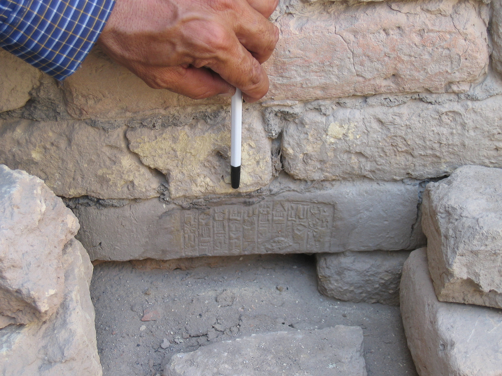 Description: Ancient Cuneiform writing in Ur, southern Iraq. Source: self-made Author: Unclefester89 taken in September 21, 2005 Permission: see below